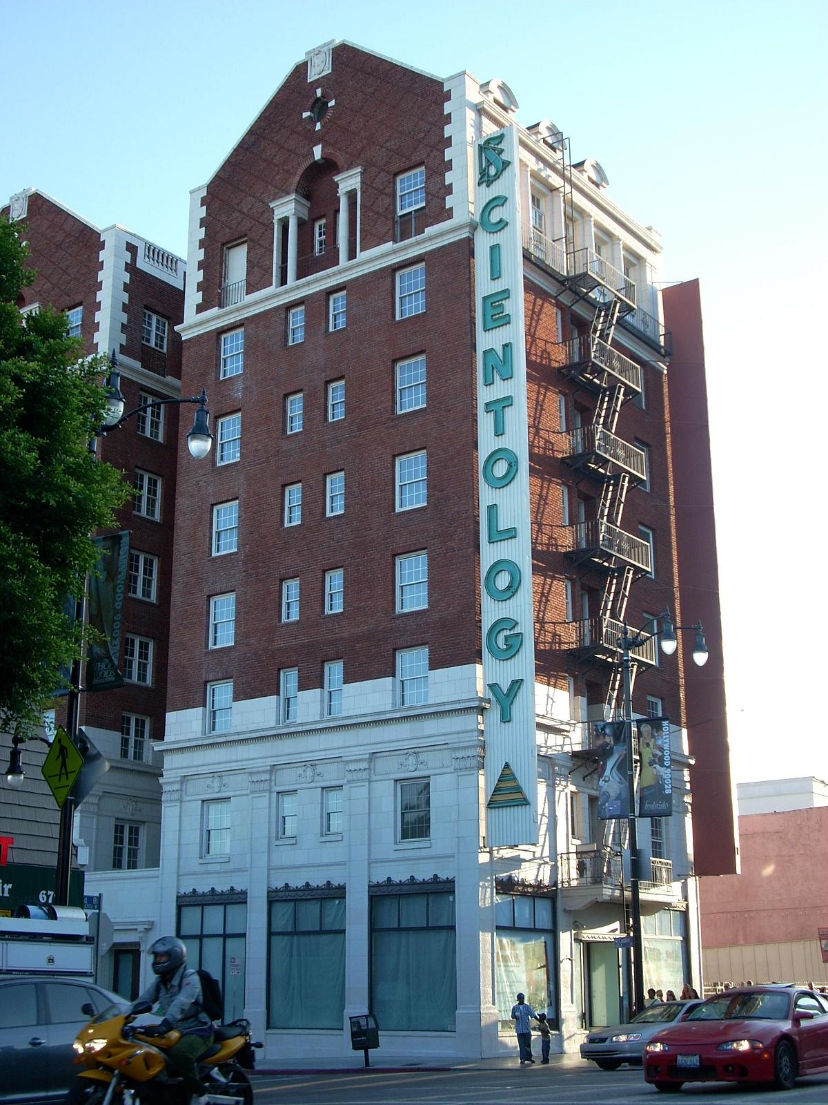 Scientology building on Hollywood Boulevard in Los Angeles, California